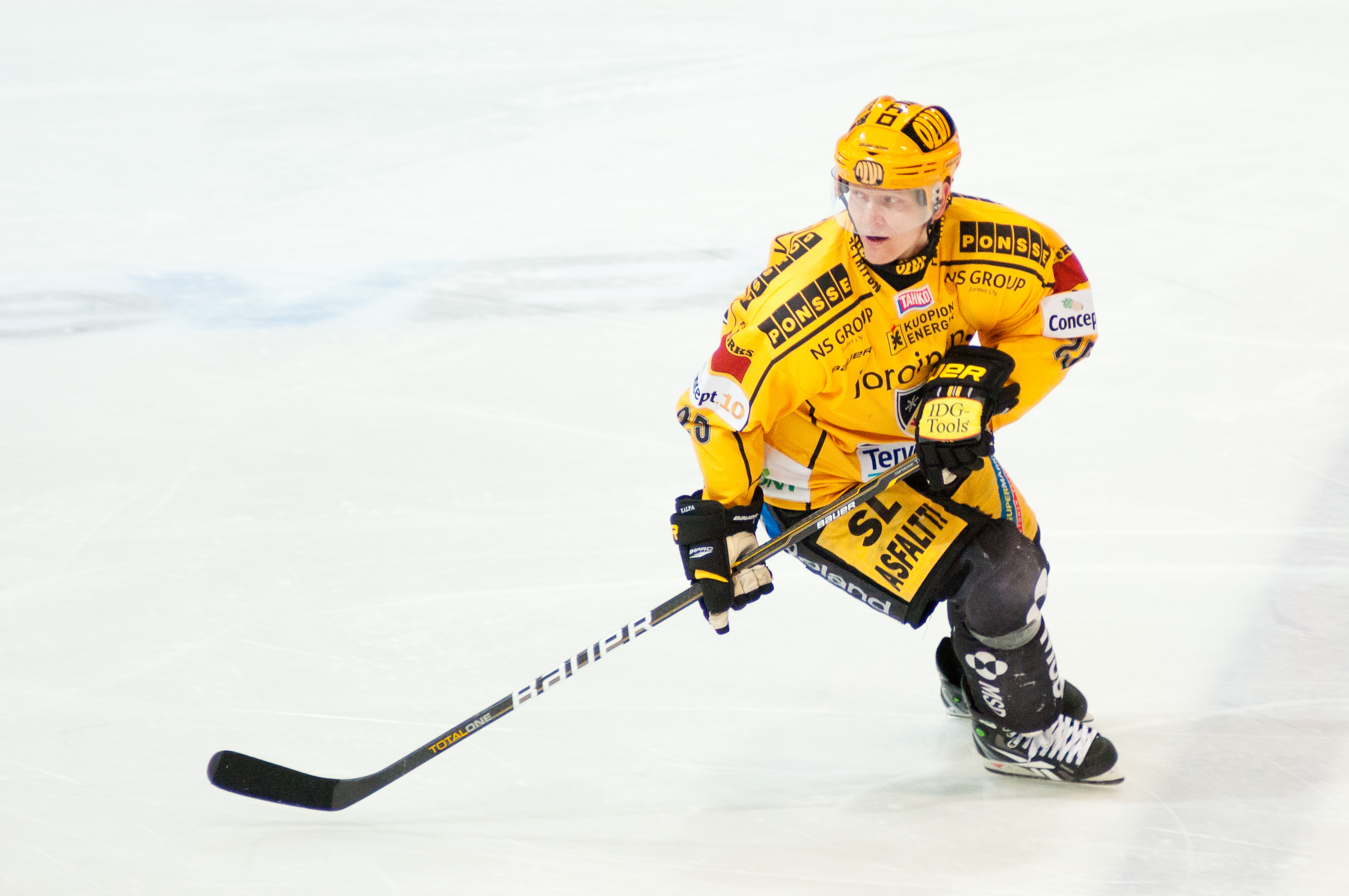 Finnish ice hockey forward Jukka Hentunen playing for KalPa Kuopio in Lappeenranta, Finland.